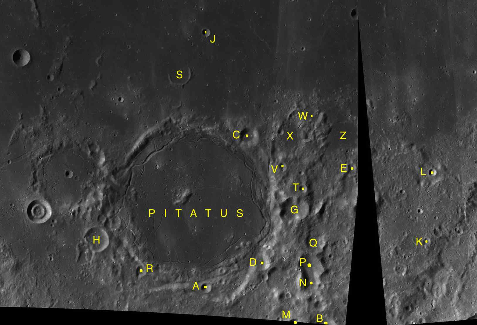 Parts of the charts LAC-94, LAC-95 used for the presentation